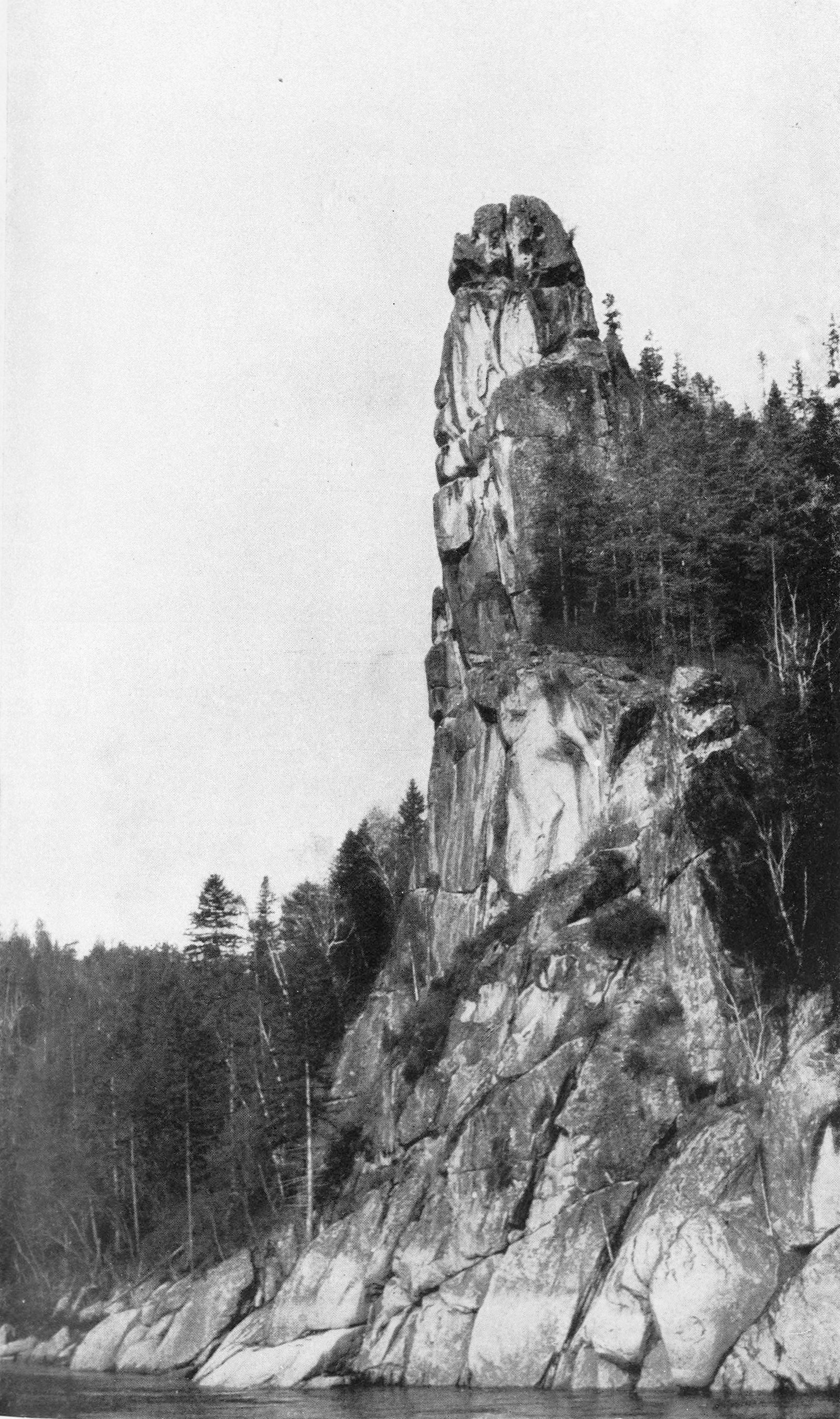 Cliff on the Bureya river where the gold-miners died